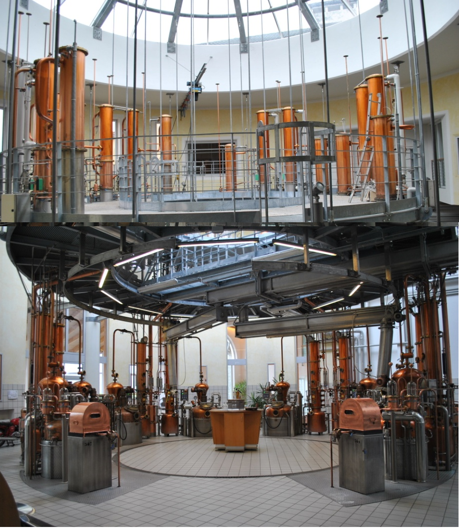 Modern equipment for the distillation of grappa. Distilleria Marzadro, Trentino, Italy.